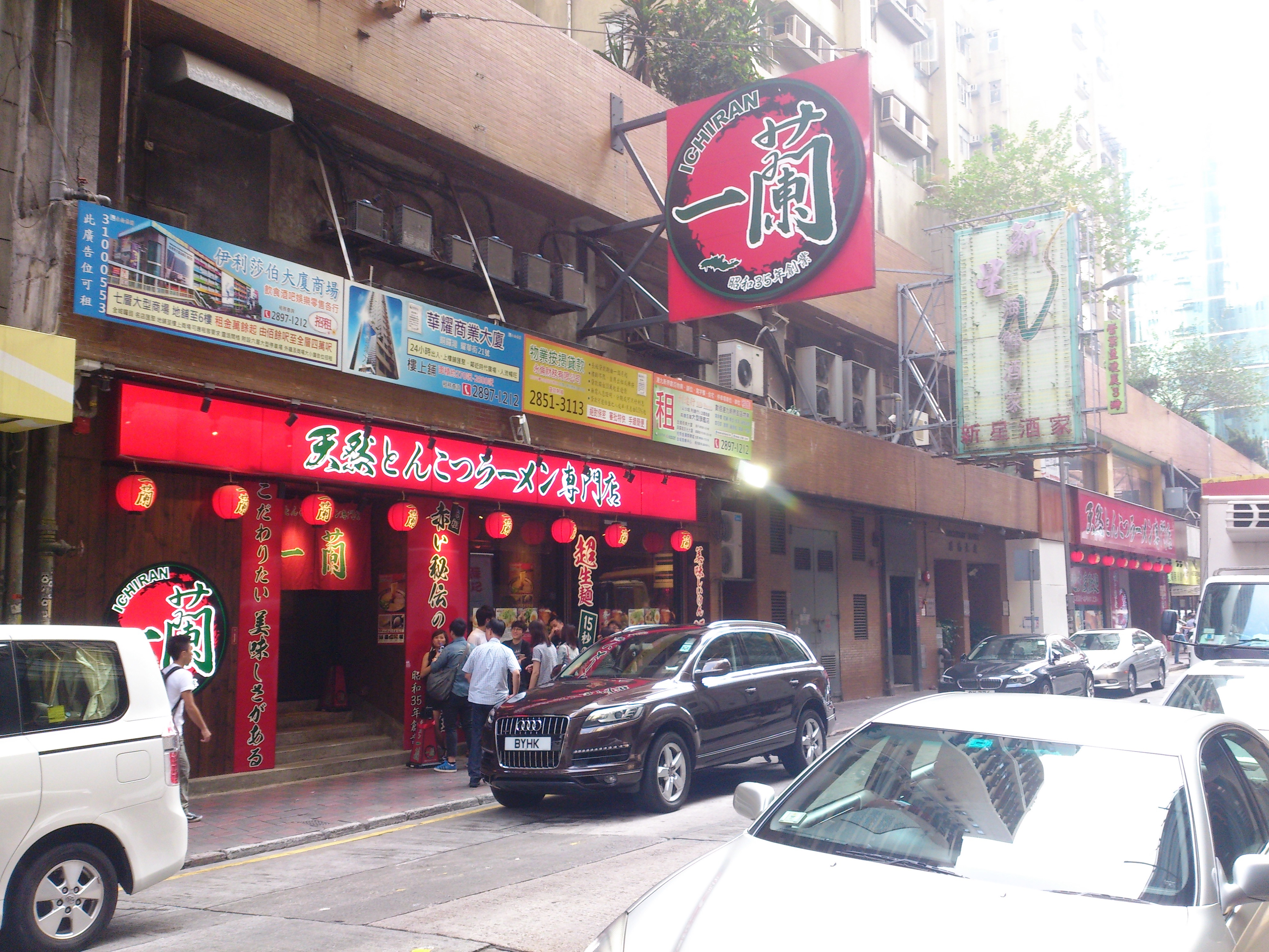 Ichiran Hong Kong Branch